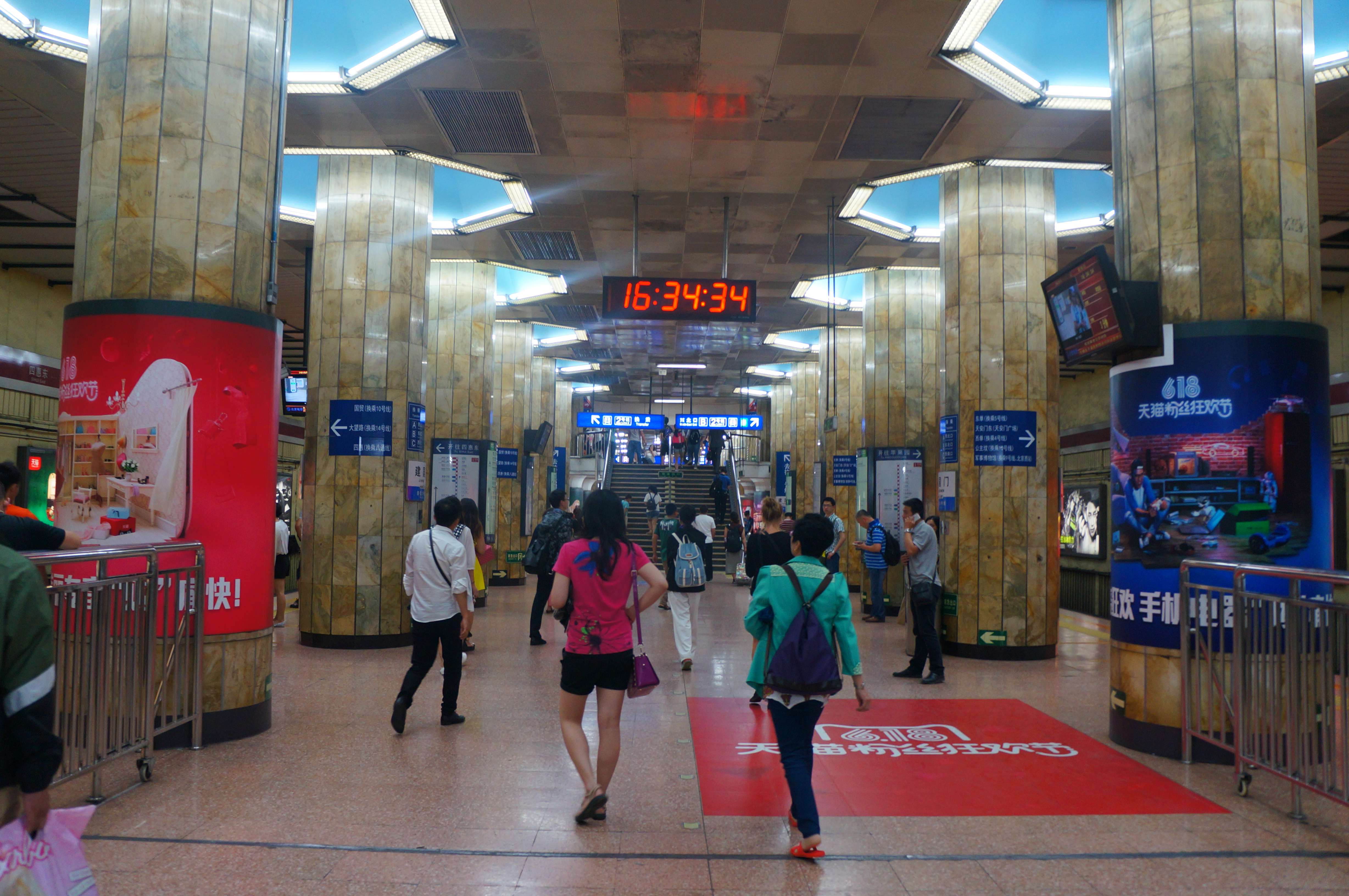 201606 L1 platform at Jianguomen Station